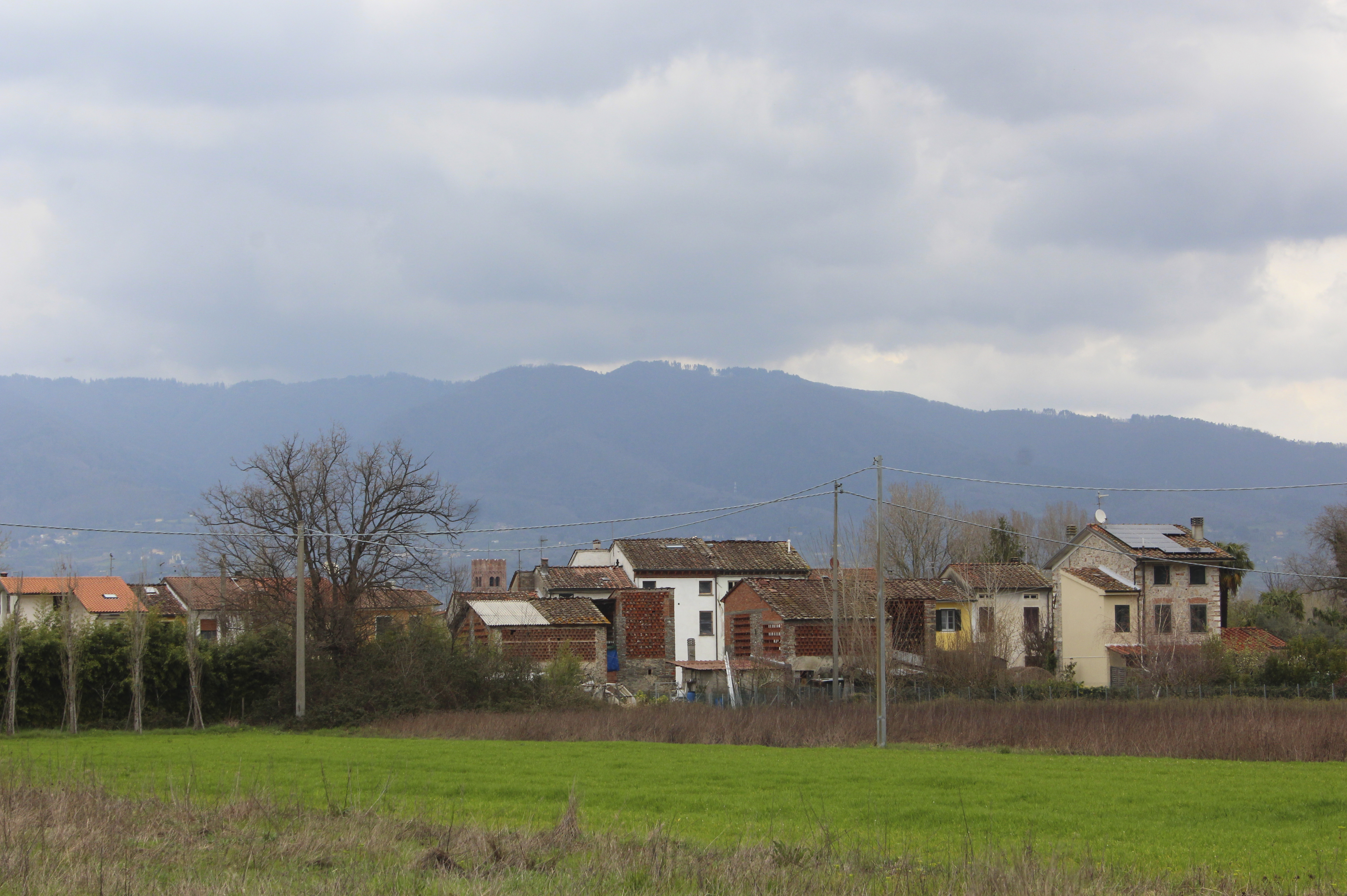 Lunata, hamlet of Capannori, Province of Lucca, Tuscany, Italy